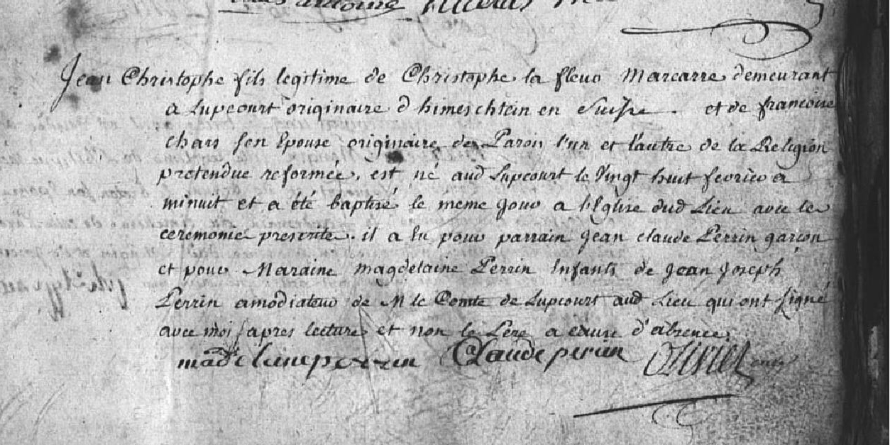 Baptism certificate Christophe Lafleur